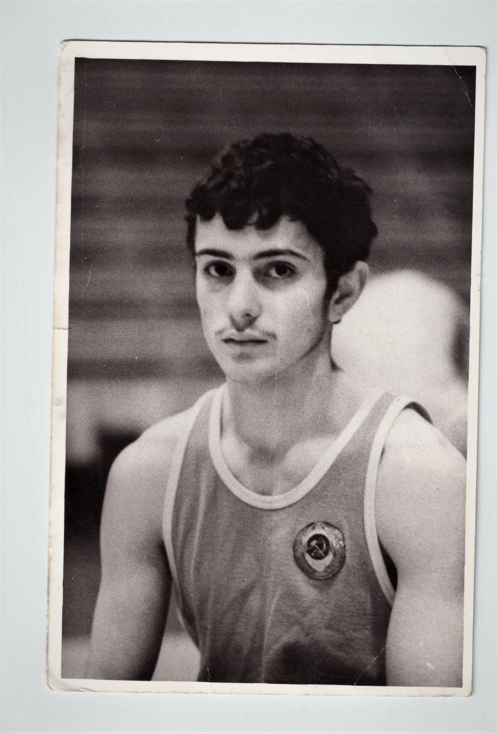 Portrait photo of Soviet boxer Garii Akopian